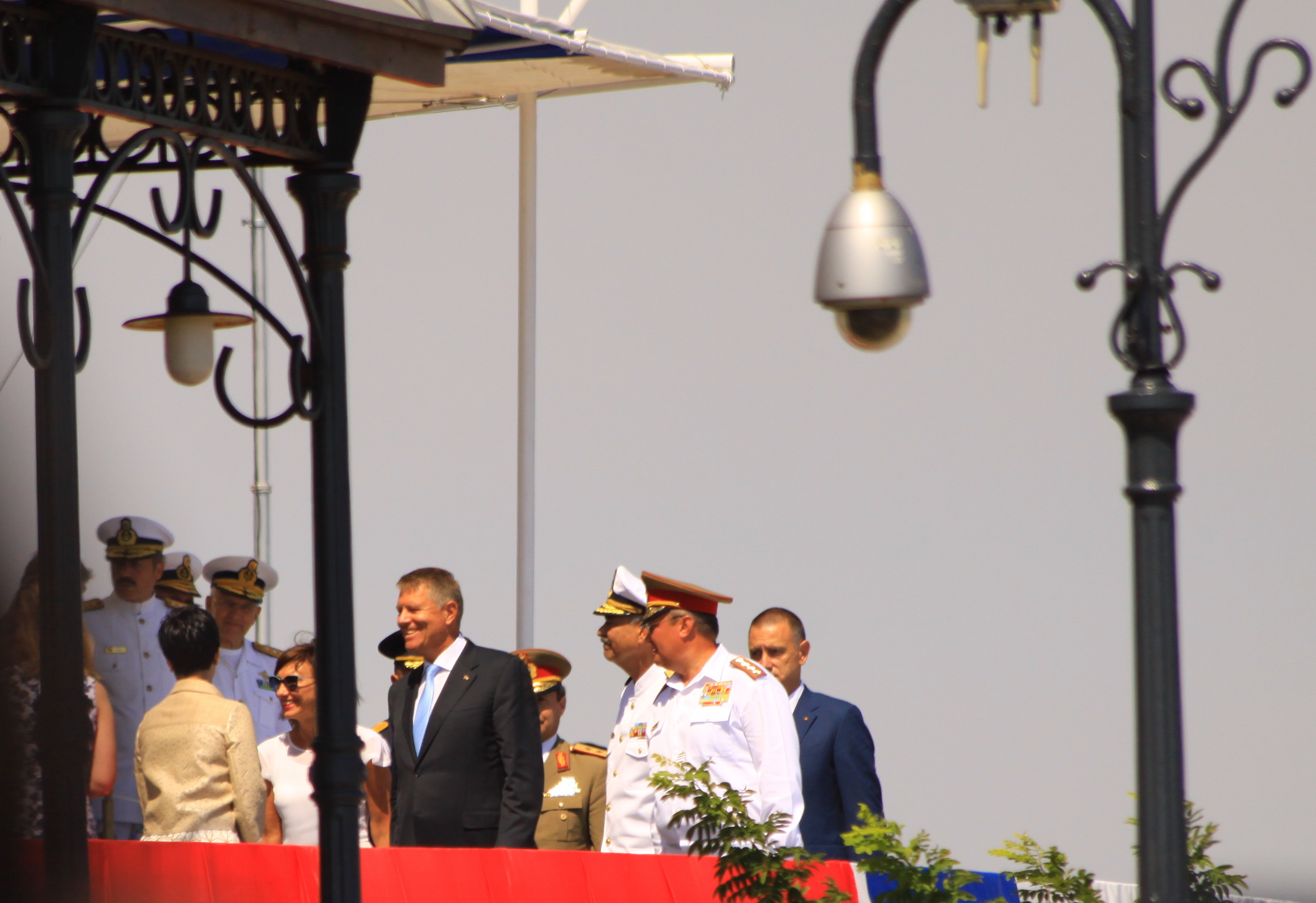 Romanian Navy official party 15-08-2018 Constanta: the President Klaus Iohannis with the admirals